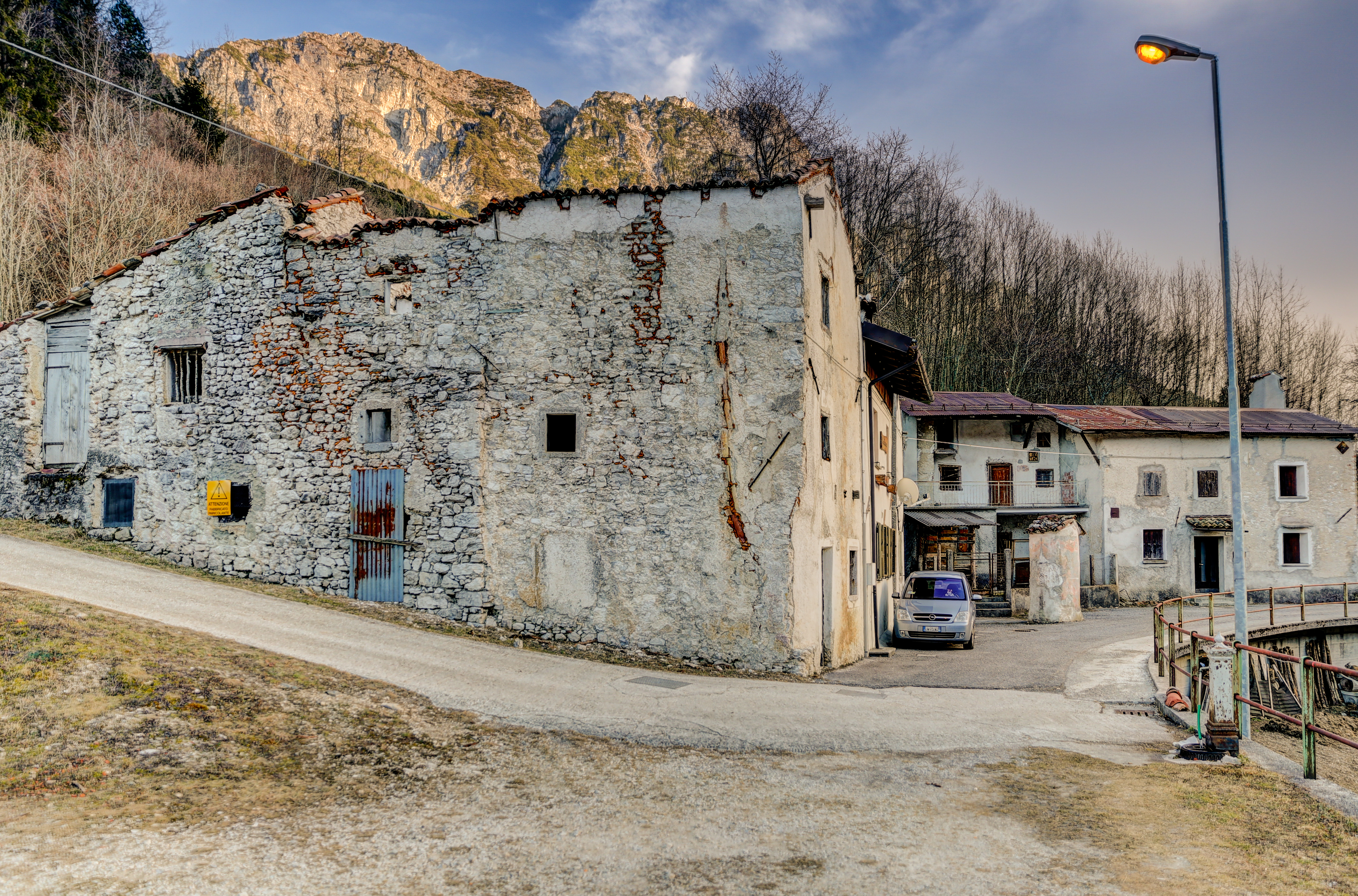 Virgulins above Dordolla in the Val d'Aupa in the Carnic Alps, community Moggio Udinese / Friuli-Venezia Giulia / Italy / EU.